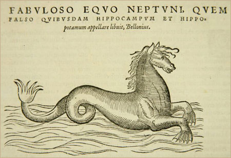 Hippocamp (Hippocampus). Conrad Gessner, Thierbuch (Animal Book), Zurich, 1563.